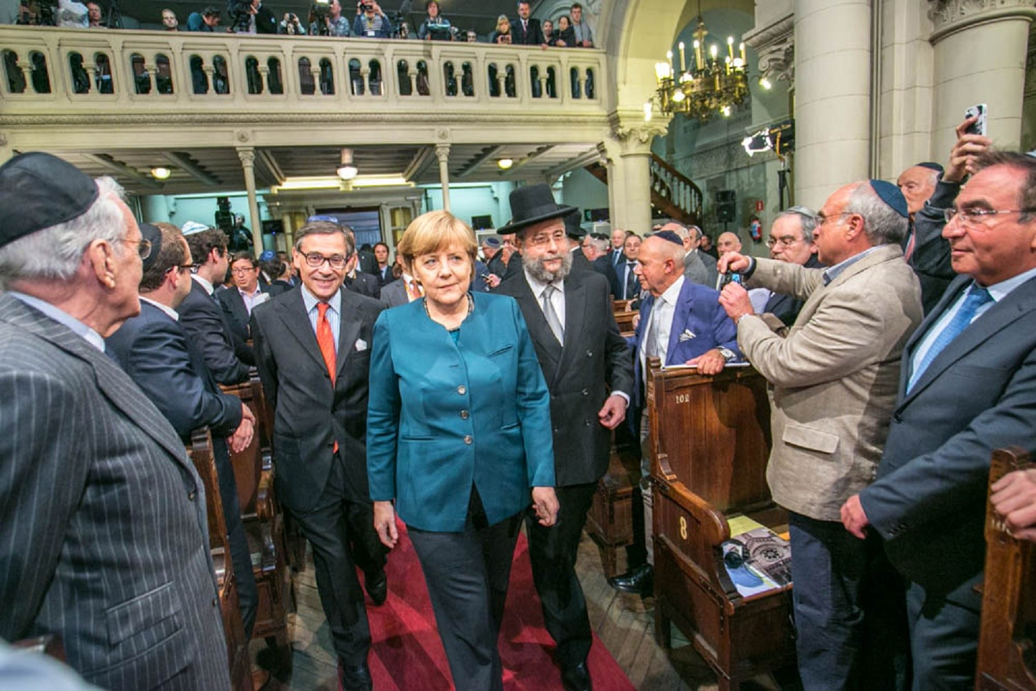 German Chancellor being honored with the Lord Jakobovits award in the Great Synagogue of Brussels